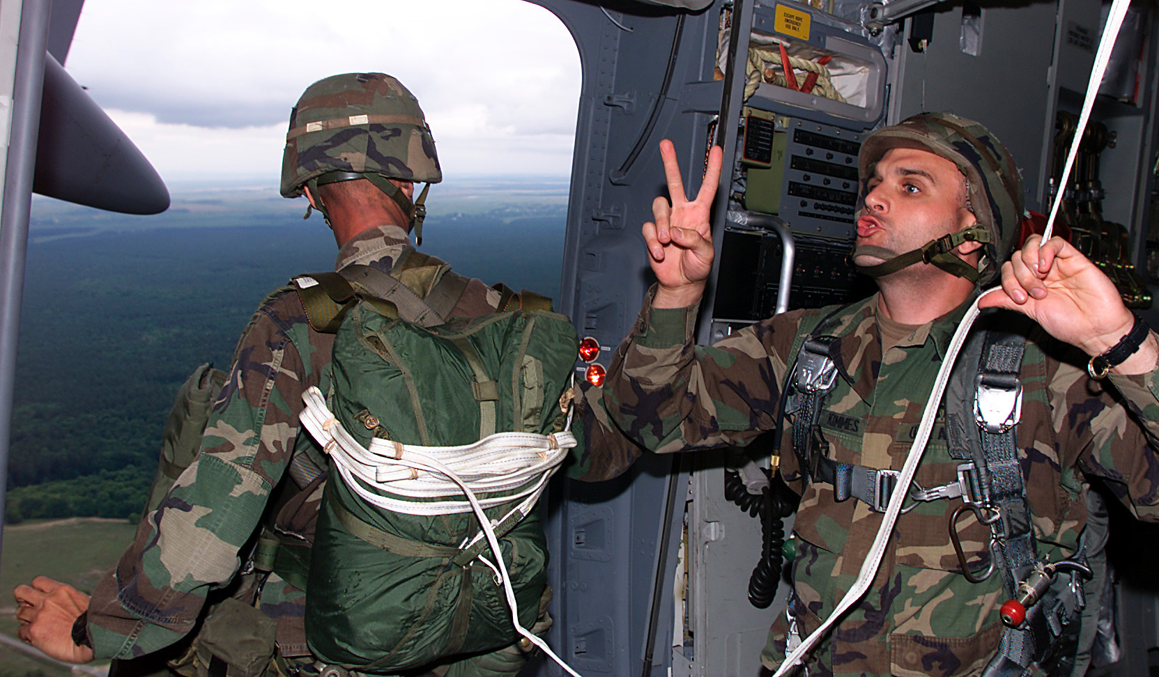 Staff Sgt. Kimmes, a jumpmaster with the 82nd Airborne, Fort Bragg, N.C., gives a two minute warning to paratroopers as they near the Sokol drop zone at Yavoriv, Ukraine, on July 17, 2000. An international mix of 172 paratroopers are flying directly from Fort Bragg to Yavoriv, Ukraine, and jumping in support of Exercise Peaceshield 2000. Approximately 1000 soldiers from 22 countries are taking part in the peacekeeping training exercise at the Partnership for Peace Training Center at Yavoriv.